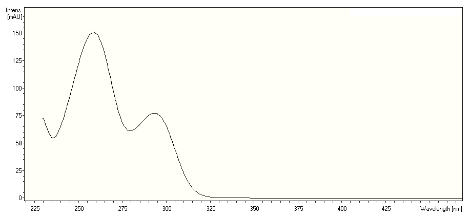 UV spectrogram of protocatechuic acid